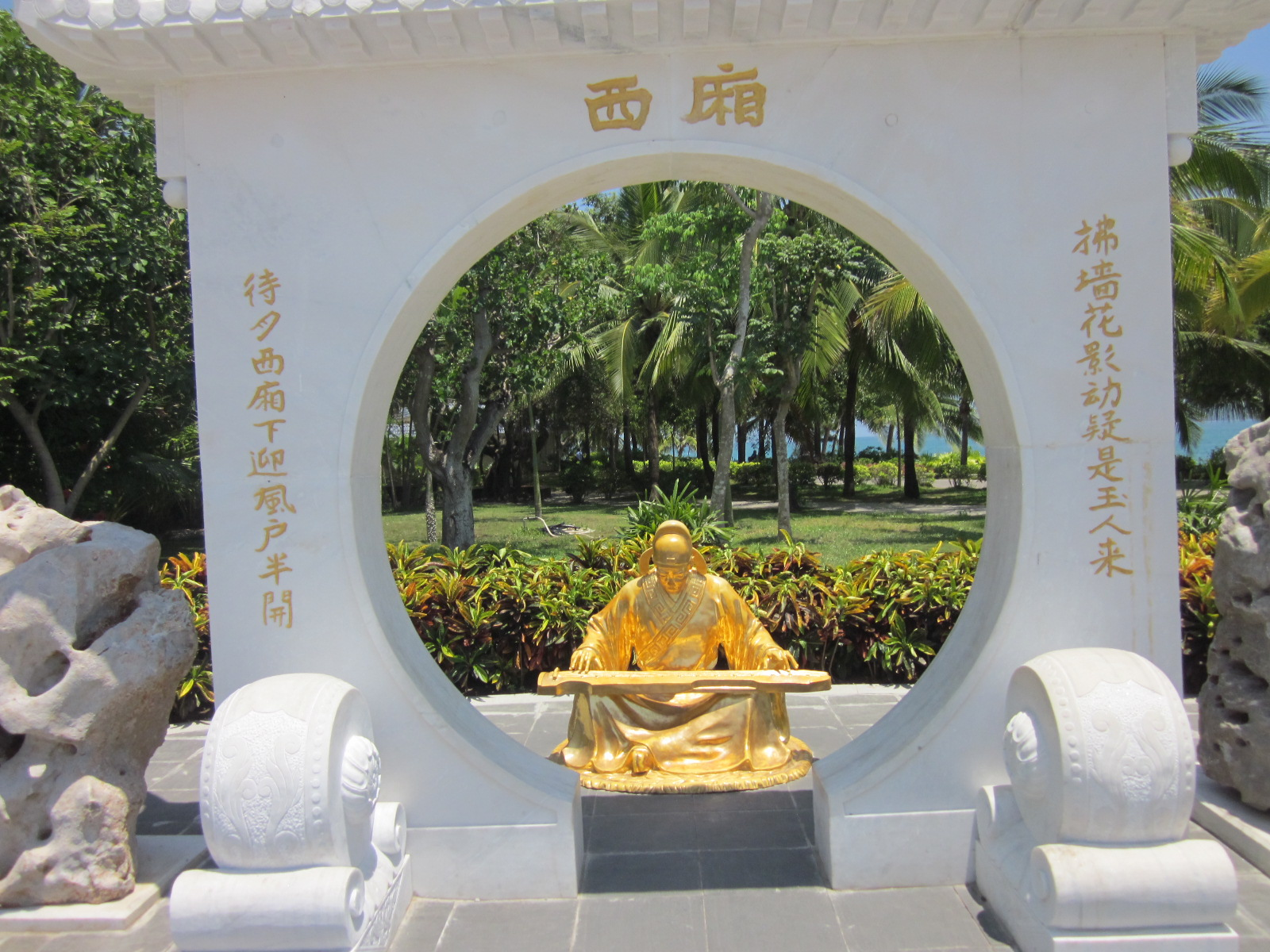 Tianya Haijiao